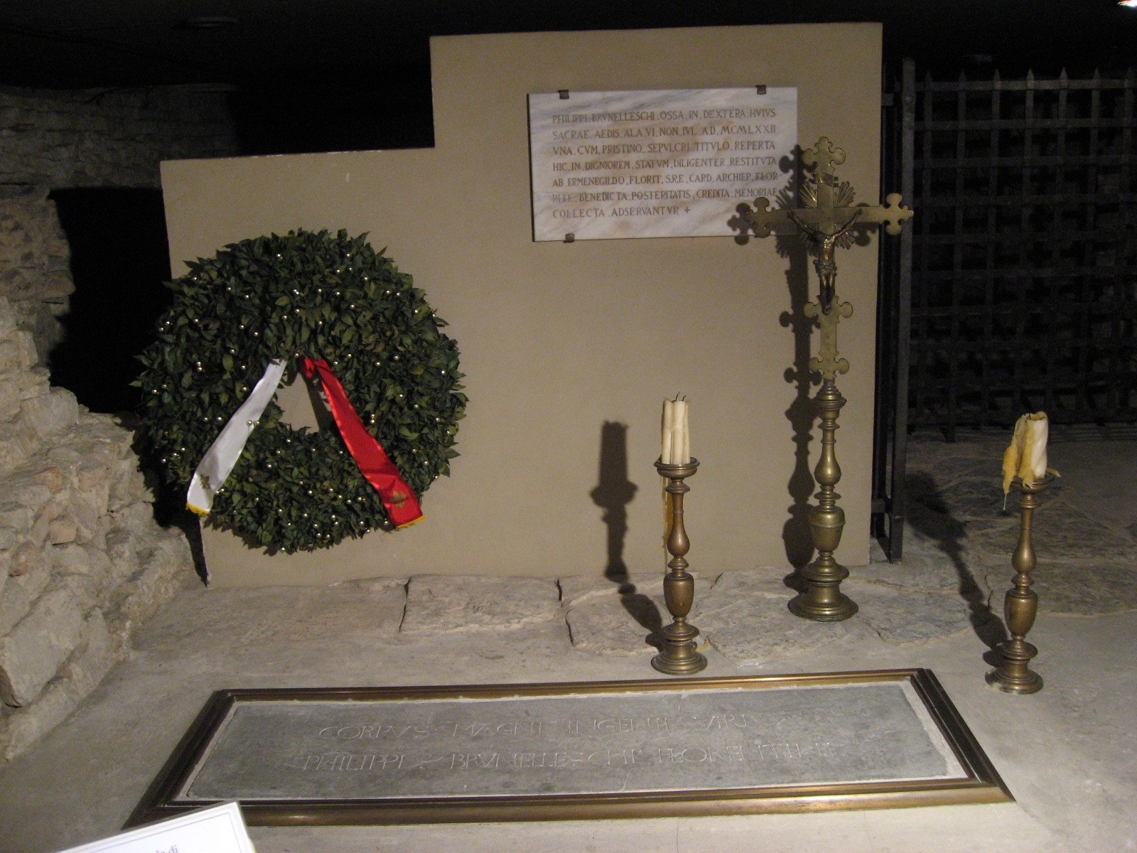 The original sepulchral inscription of the tomb of Brunelleschi: CORPVS MAGNI INGENII VIRI PHILIPPI S. BRUNELLESCHI FLORENTINI, which translates into English as "The body of a great man of great genius Florentine Filippo di ser Brunellesco".